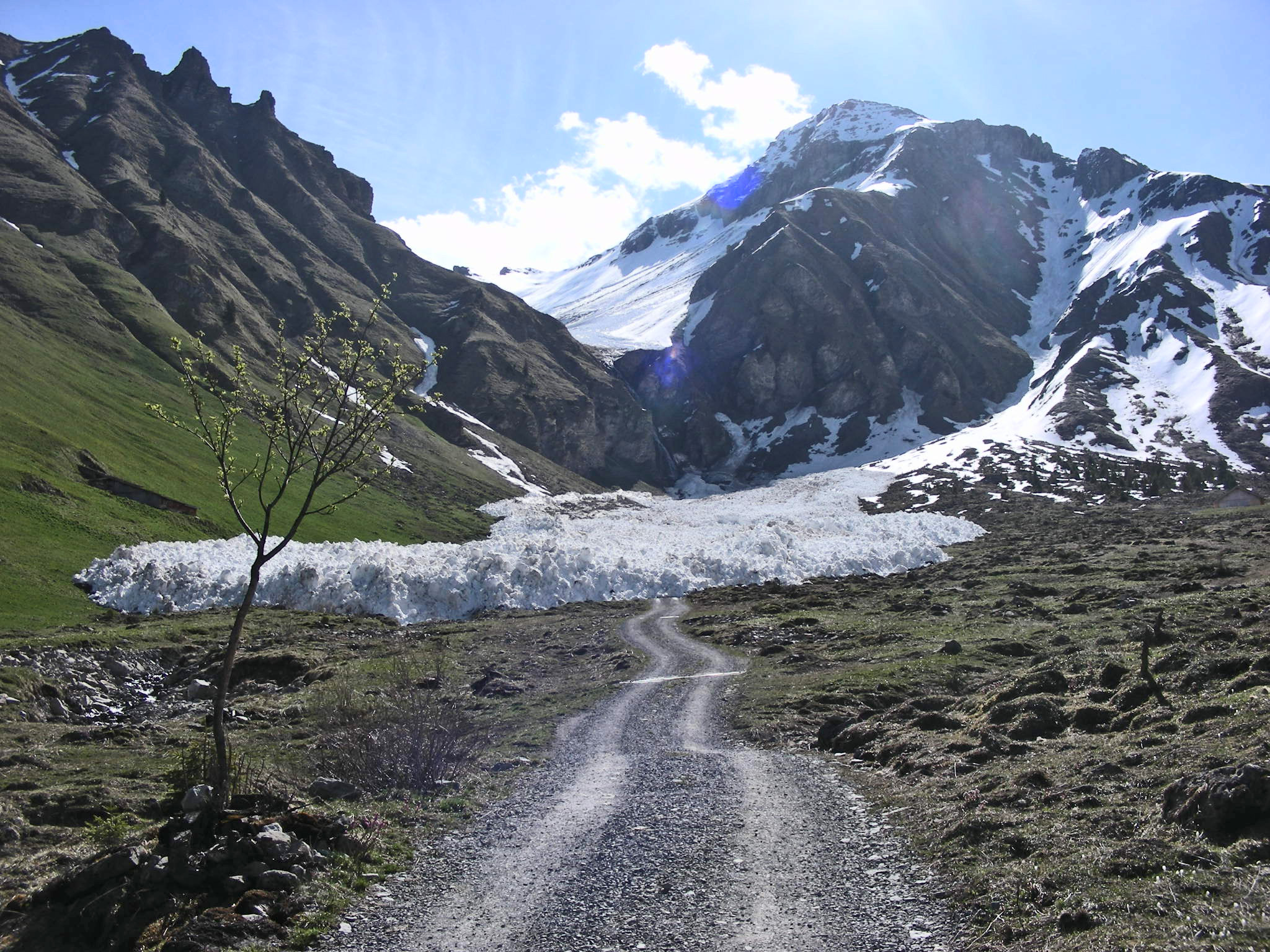 Rueggentallawine in Färmeltal